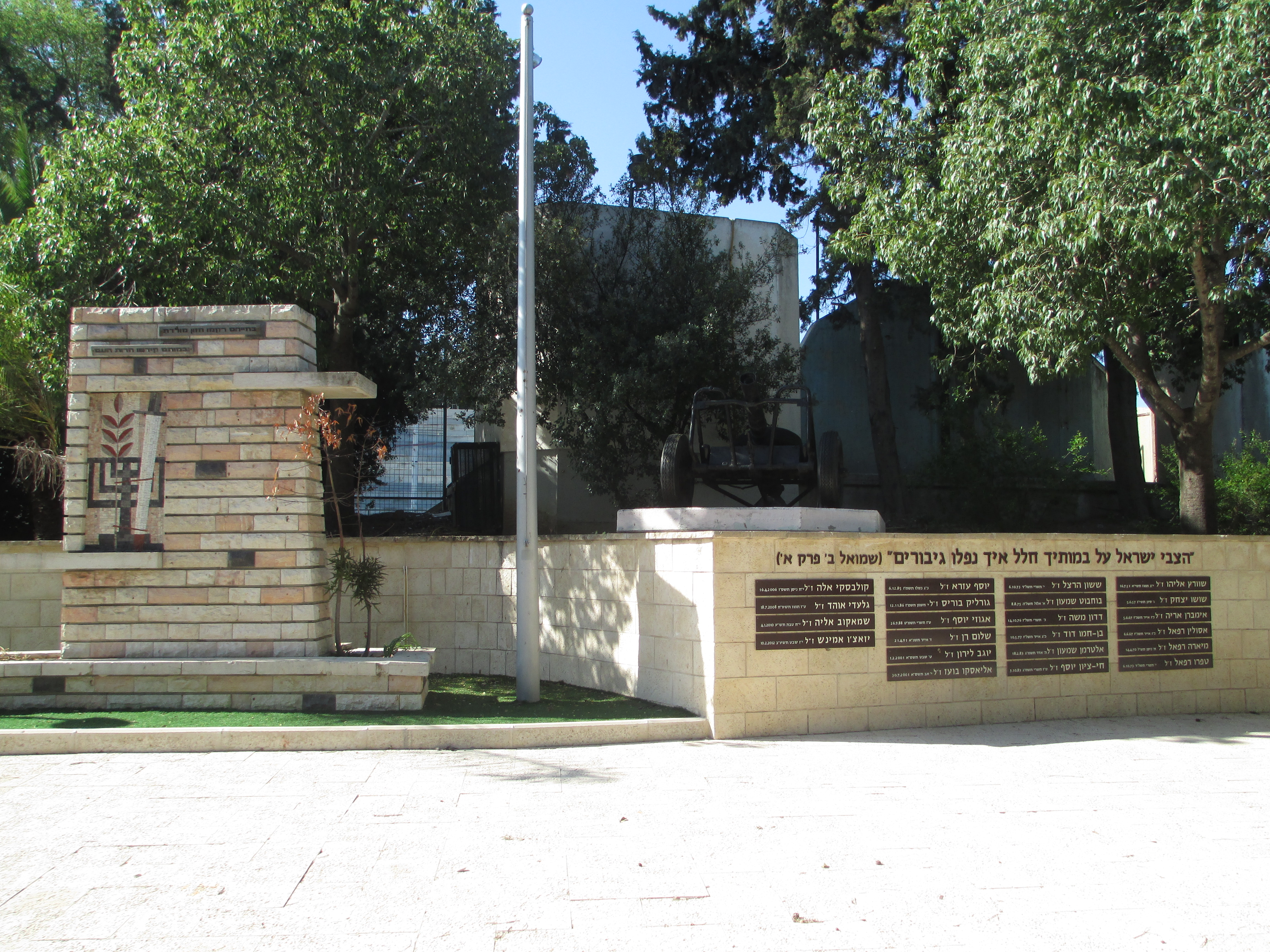 War memorial in Yokneam